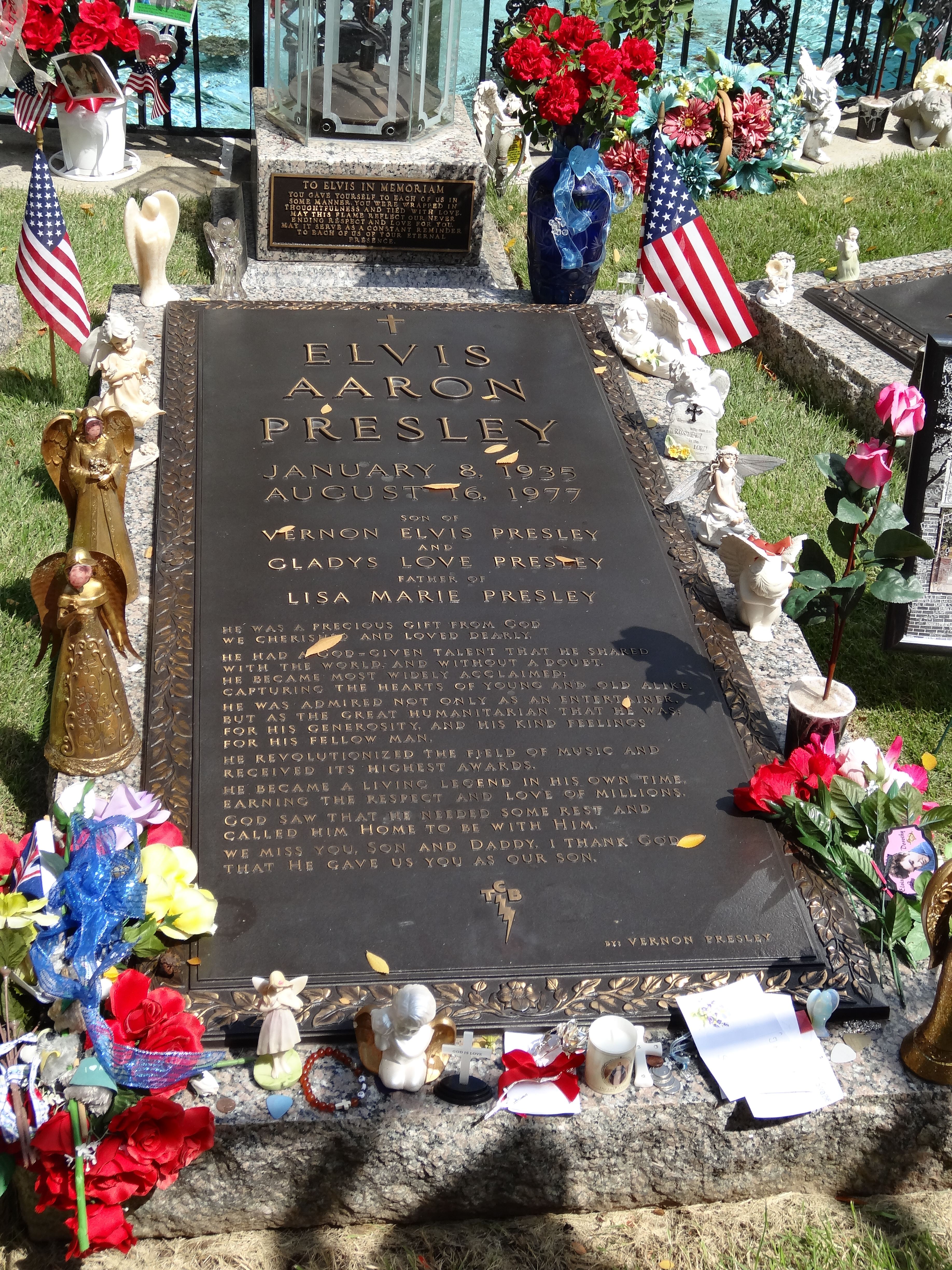 Graceland 3